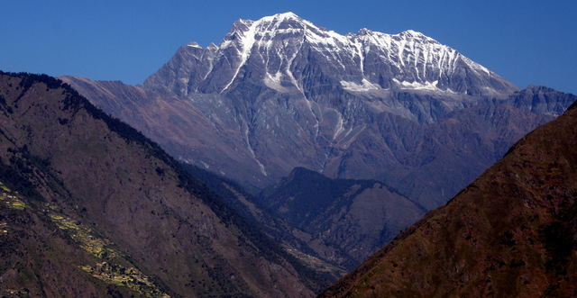 Sisne Peak towers above the remote villages and fields of secluded Rukum District in rugged western Nepal. Photo by Alonzo Lyons.